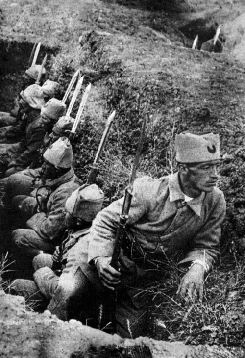 Turkish infantry in trench during the Turkish War of Independence